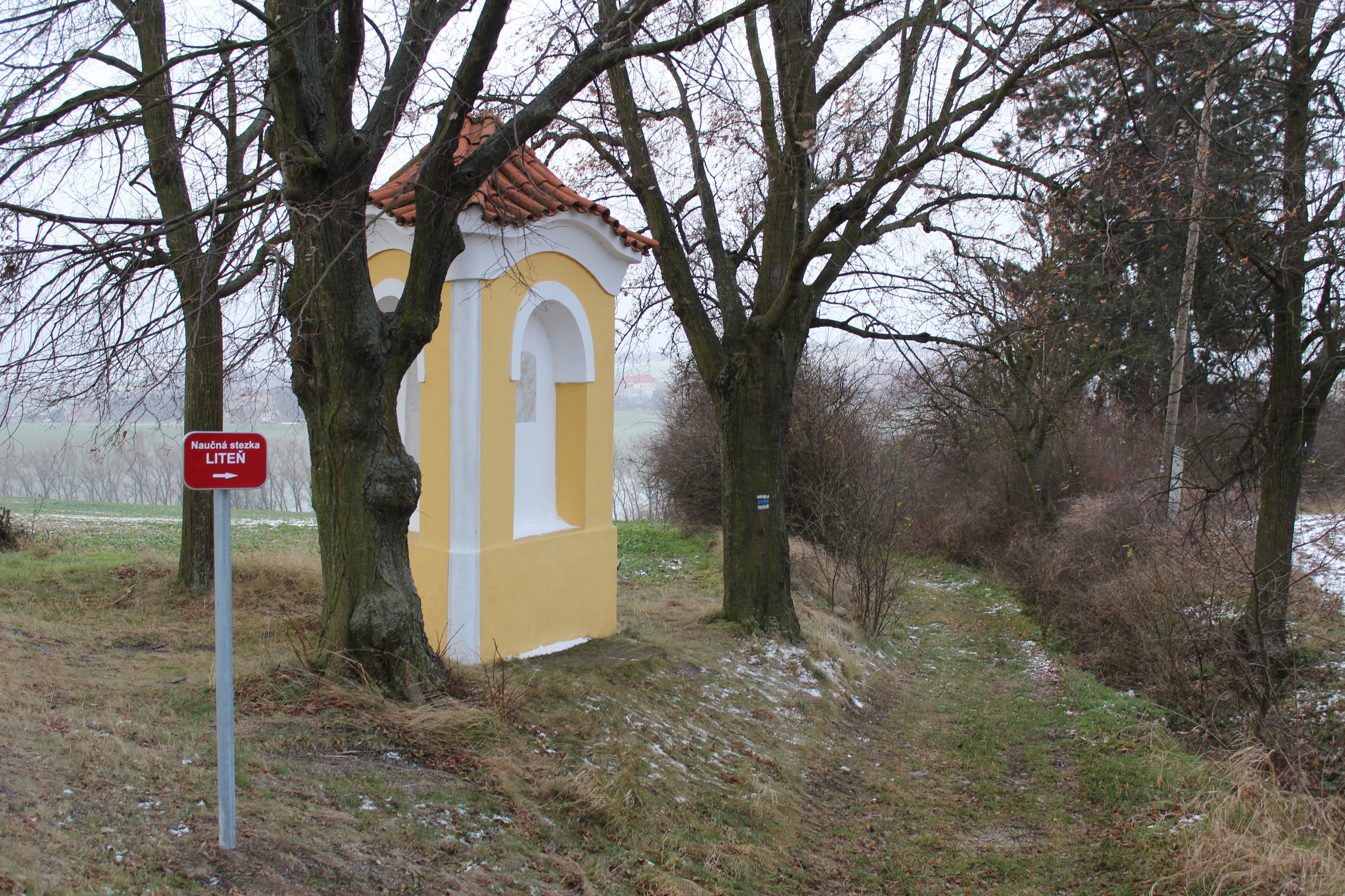 Chapel in Korno